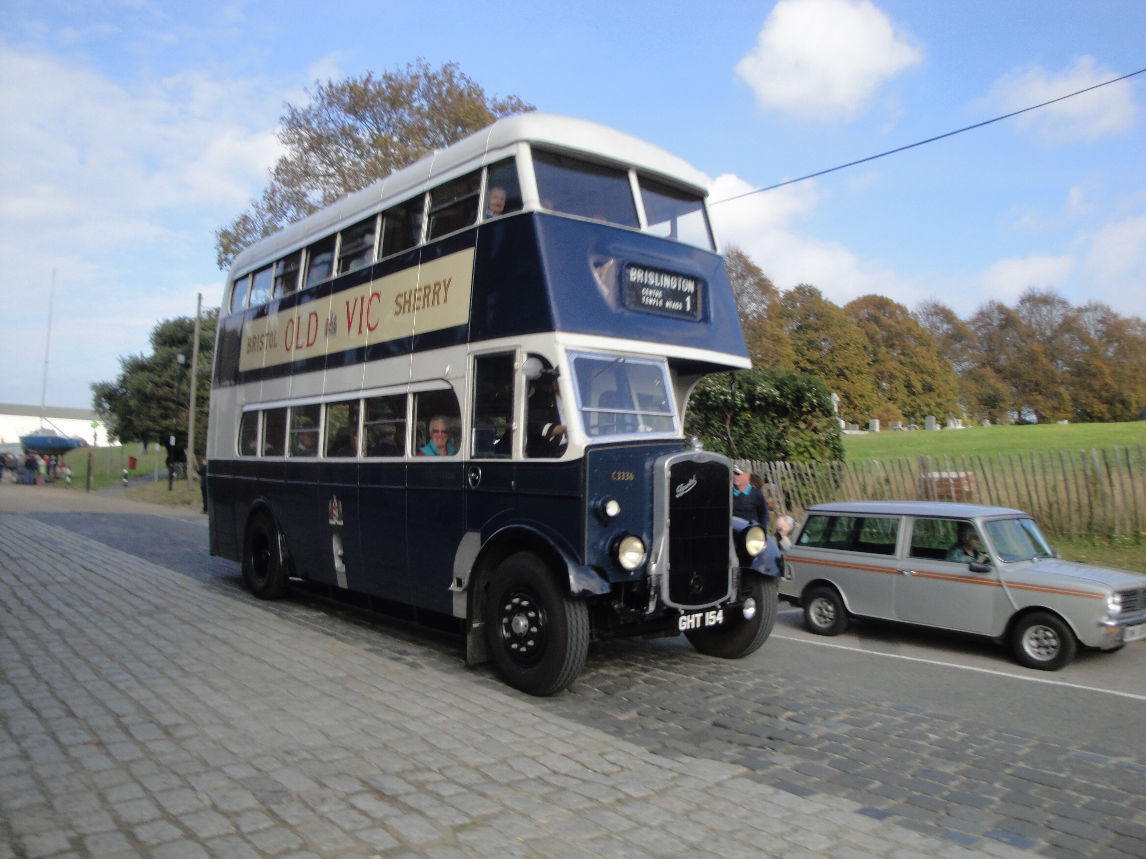 Bristol Omnibus Company C3336 (GHT 154), a Bristol K6G, in Newport Quay, Newport, Isle of Wight for the Isle of Wight Bus Museum's October 2011 running day.